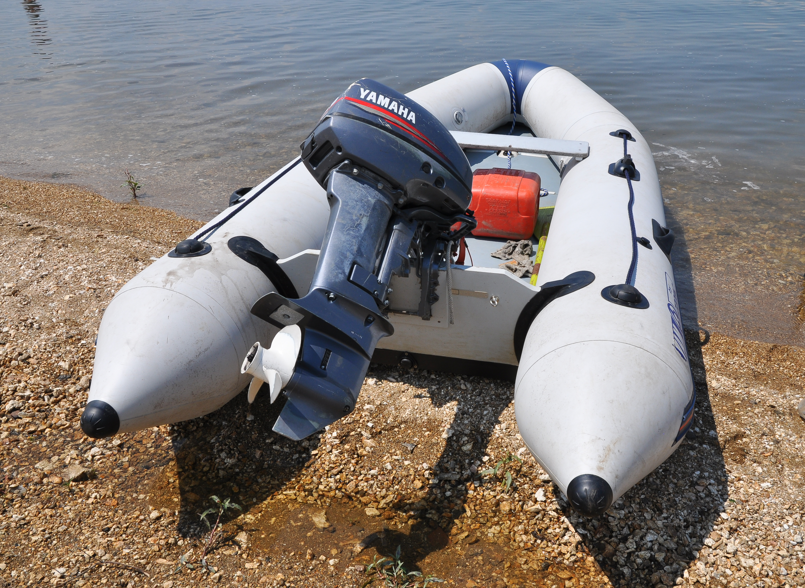 Zodiac Inflatable Boat with Yamaha marine engine.